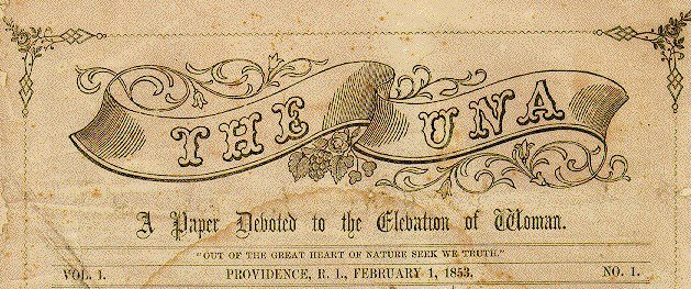 Top portion of The Una, a feminist newspaper, volume 1, number 1 (February 1, 1853)